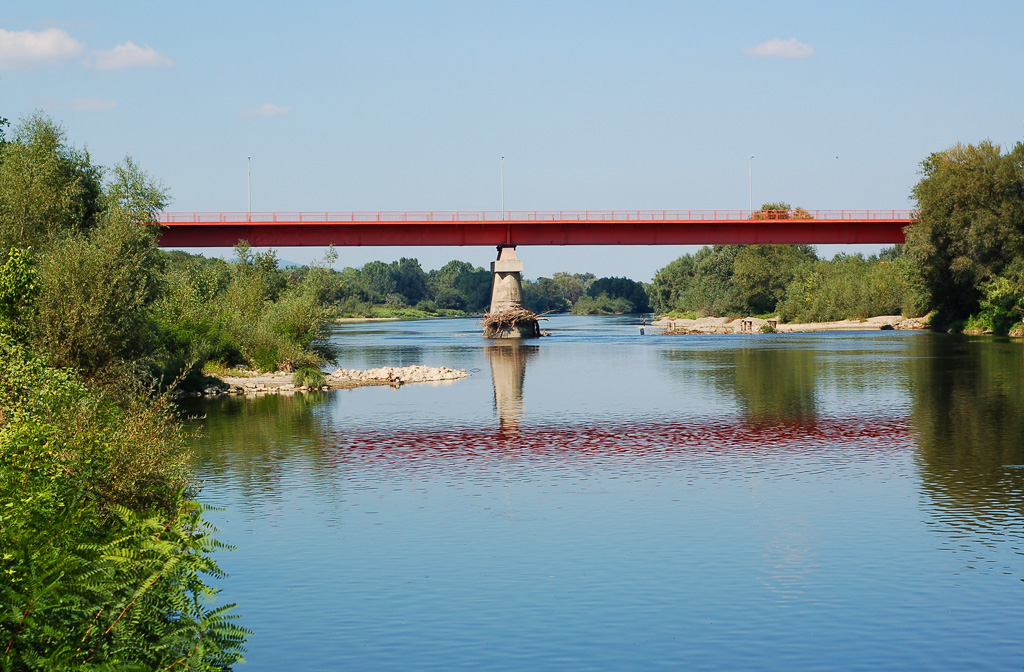 Bridge over Velika Morava in Varvarin. Old bridge is torn down in NATO campaign against FR Yugoslavia, when ten civilians are killed and 17 more were severe injured